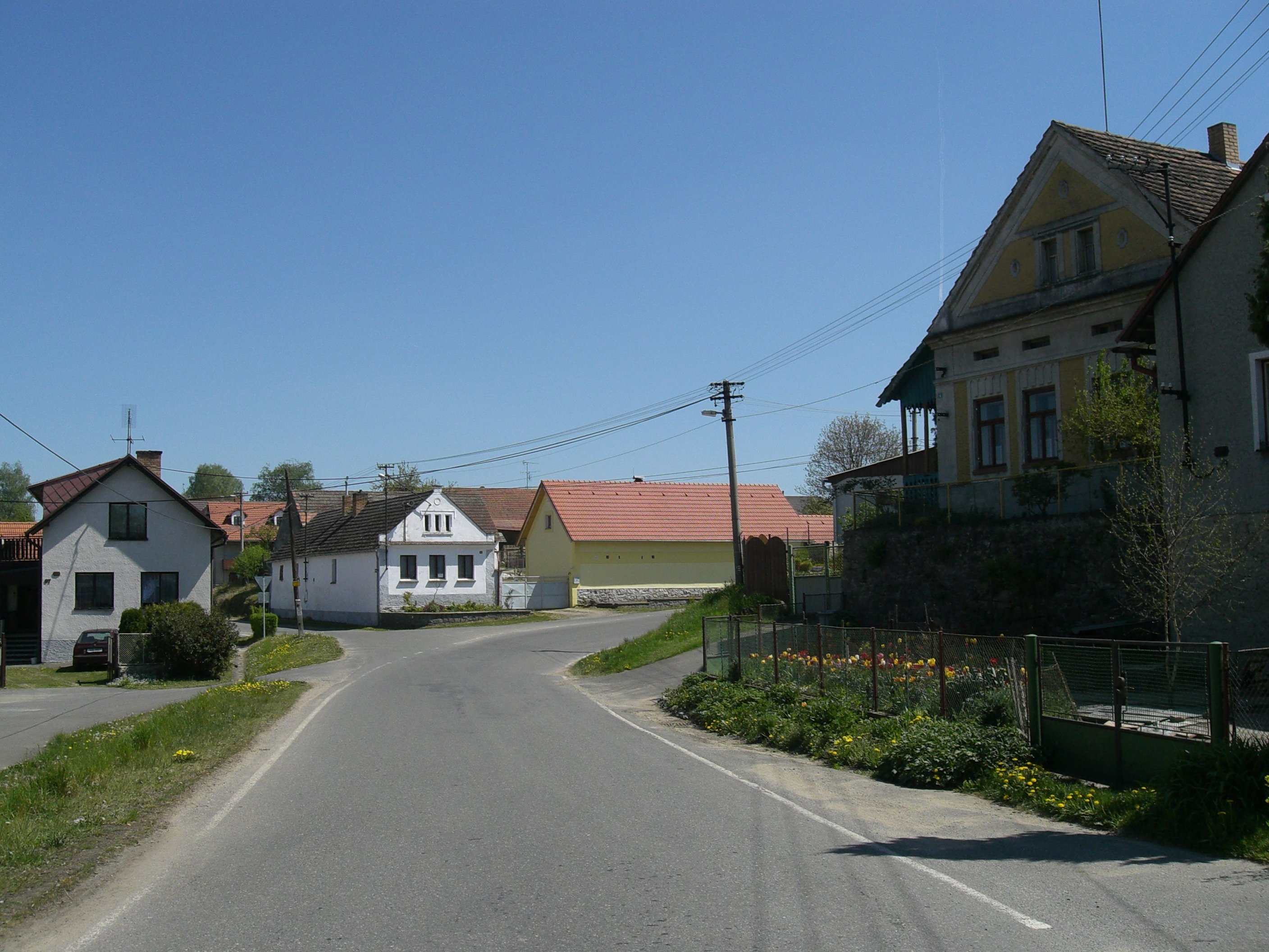 Kučeř village in Písek district, Czech Republic. Street